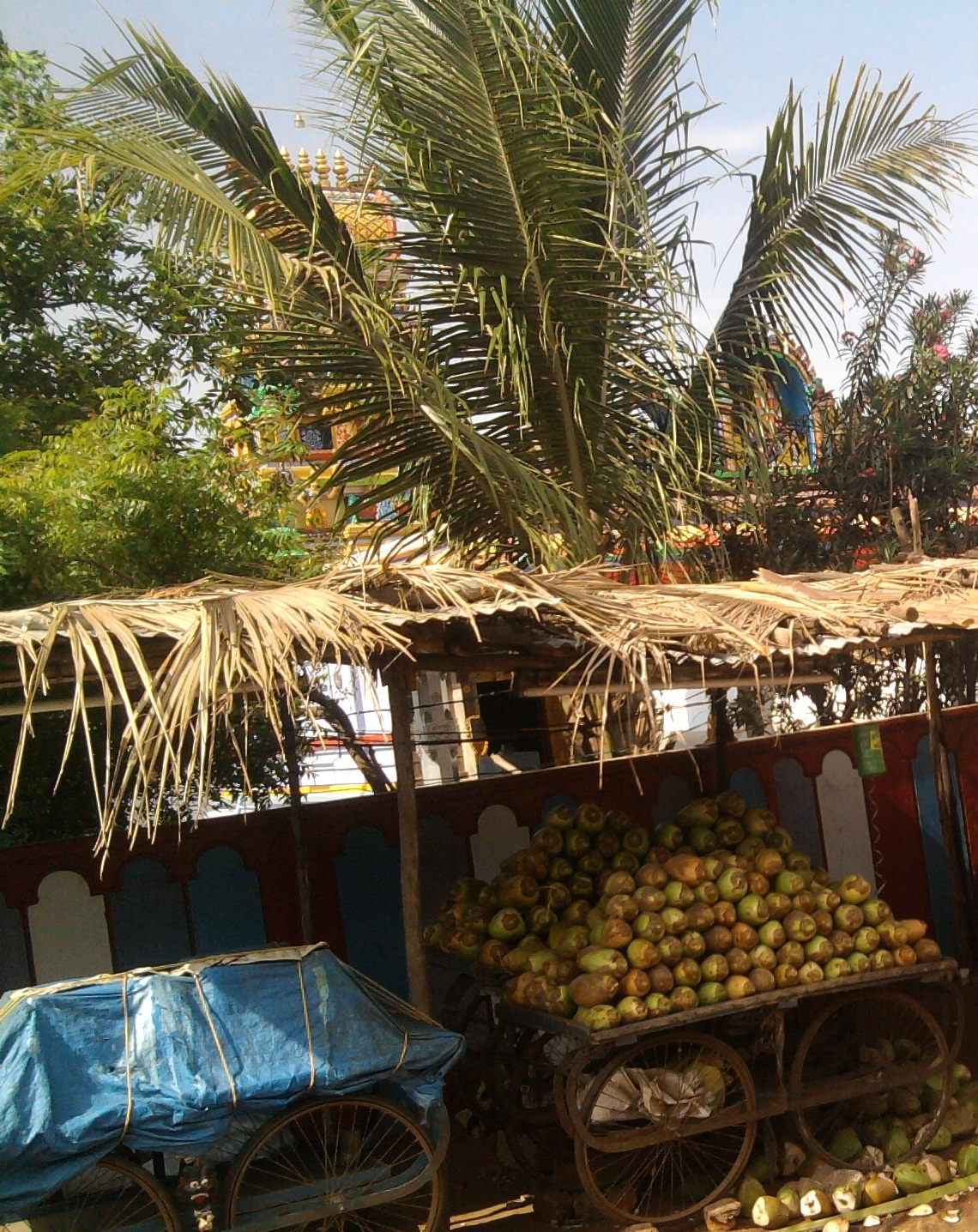 Coconut for Coconut water